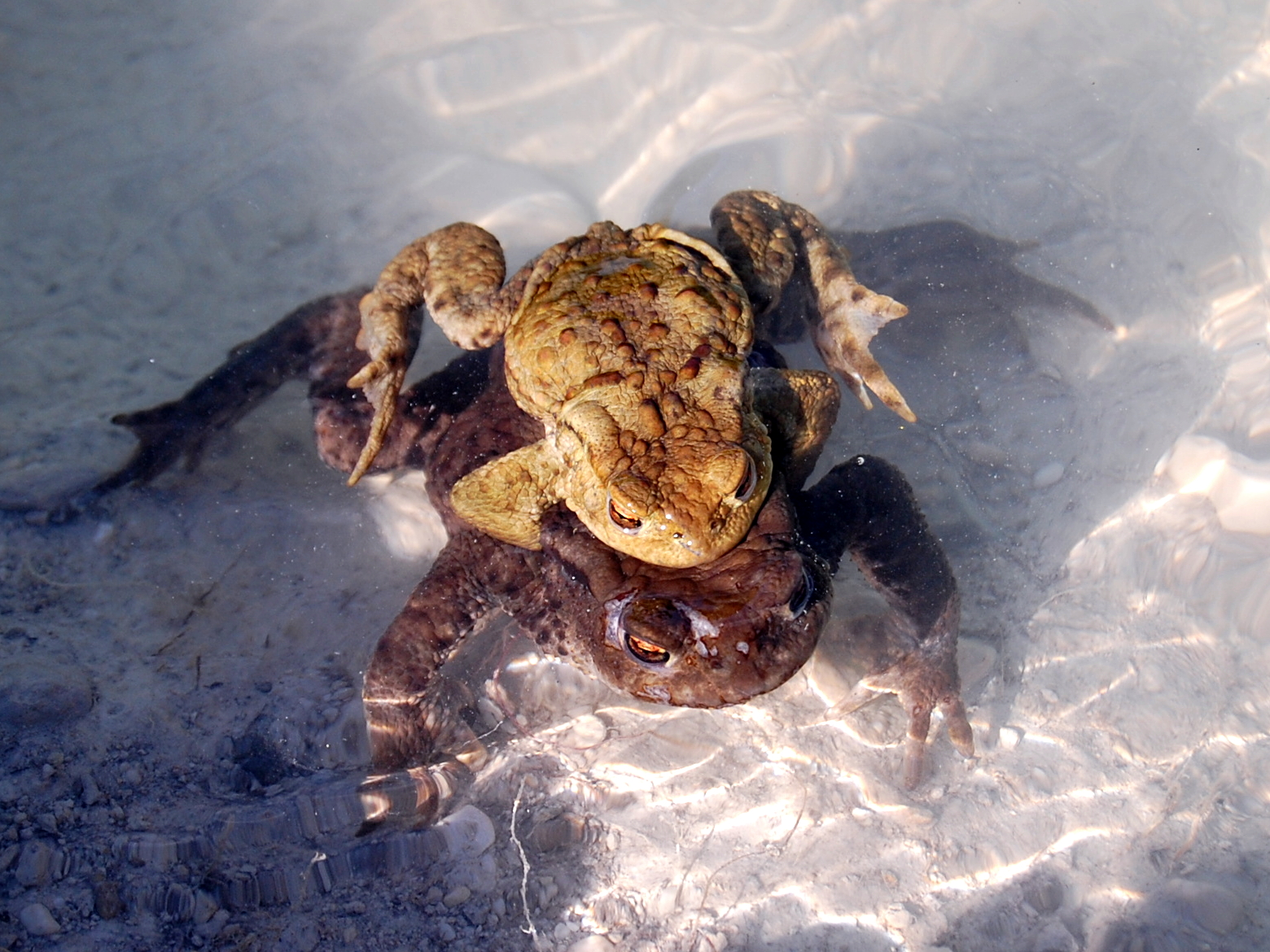 Toads mating (Kreda lake in Radovna, Slovenia